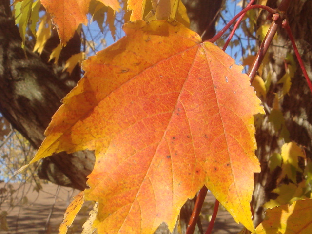 Orange autumn color of a maple leaf.